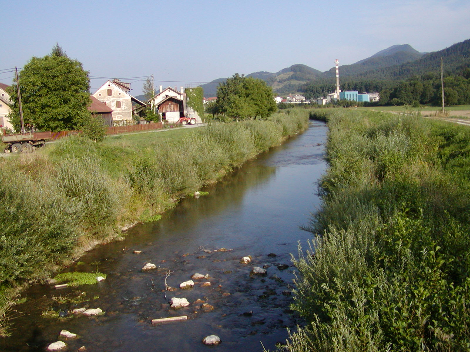 Regulated Bolska river at the village of Kaplja vas